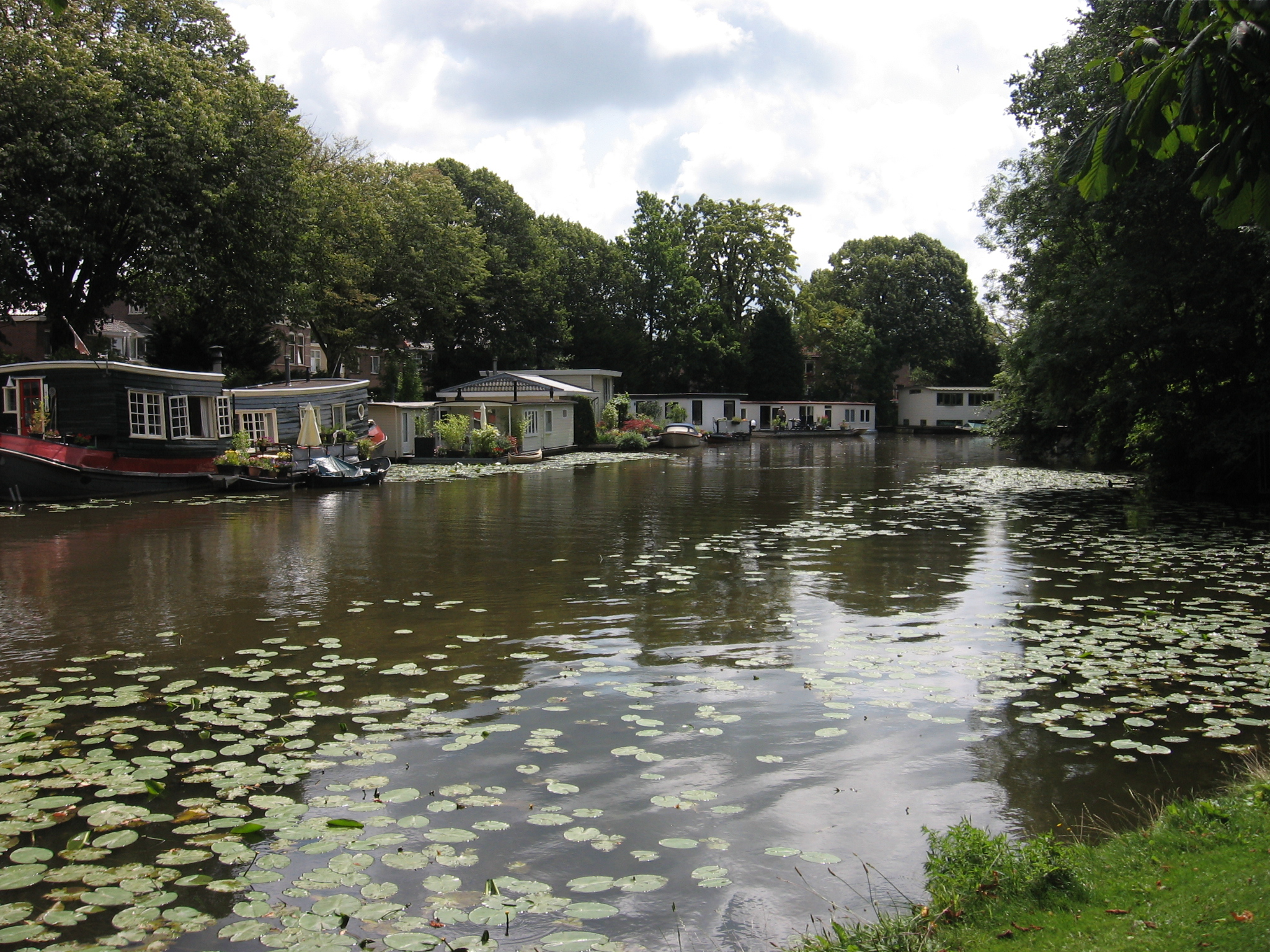 Zijlsingel-Katoenpark